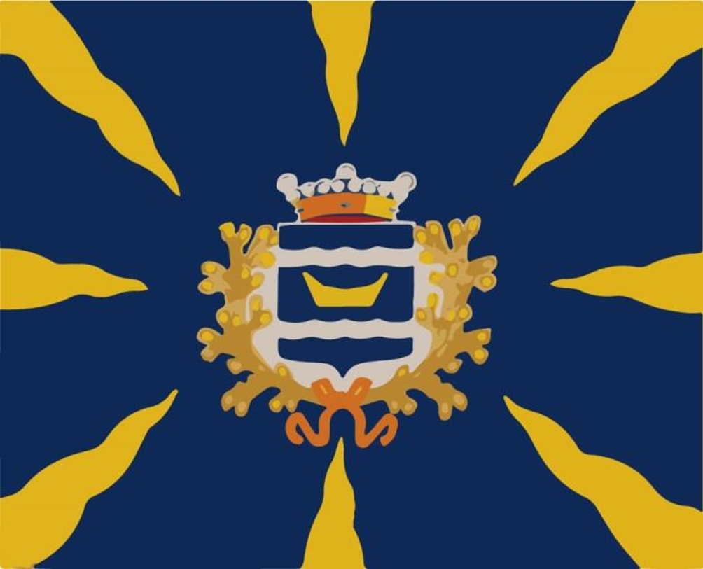 Flag of the Uusimaa Brigade, Finnish Navy